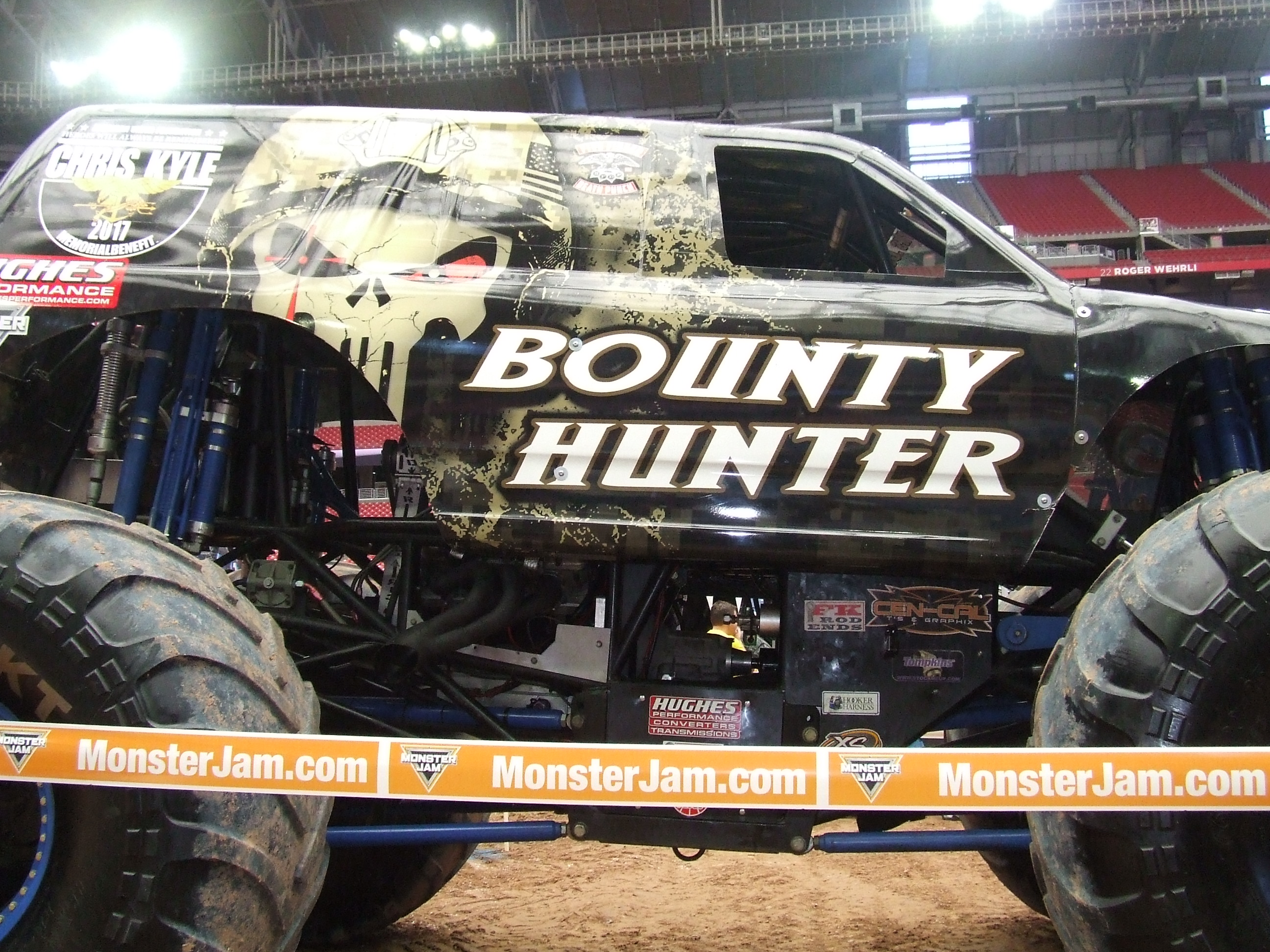 Bounty Hunter Chris Kyle paint scheme during Monster Jam Pit Party in Glendale, Arizona 2017